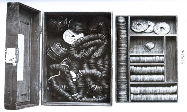 A payment box seized by the French authorities in the Vietnamese province of Bình-Ðịnh in the year 1884 featuring strings of cash coins including some larger strings of very large cash coins. Quote: "the coin of 2 mạch of the Currency of Paris comes from the payment box seized about 1884 in the province of Bình-Ðịnh(24), which seems to indicate that a certain number of these coins were indeed launched in circulation. (24) This box contained, in addition to this coin, a binding of 5 mạch of zinc currencies of Minh Mạng, 5 ligatures of 10 coins of a 1 mạch, two đồng sao of 60 văn, a ligature of 10 mạch of Chinese coins of Tong Zhi and Guang Xu; one found also 5 ligatures of mixed of currencies of Chinese and Vietnamese and more than 600 coins in bulk (AMM: 74-75). 25. It had six ingots as well there and not seven. An ingot of 5 mạch is shown as number 338 by Schroeder who gives neither weight of them nor illustration to indicates that this coin belongs to the treasure of Hue, but it is not mentioned in the inventory of the treasure and does not appear in the current collections of the Currency of Paris. The works that announce this ingot (Đo 246; World Corners; 1931) do it only while being based on only the writings of Schroeder."